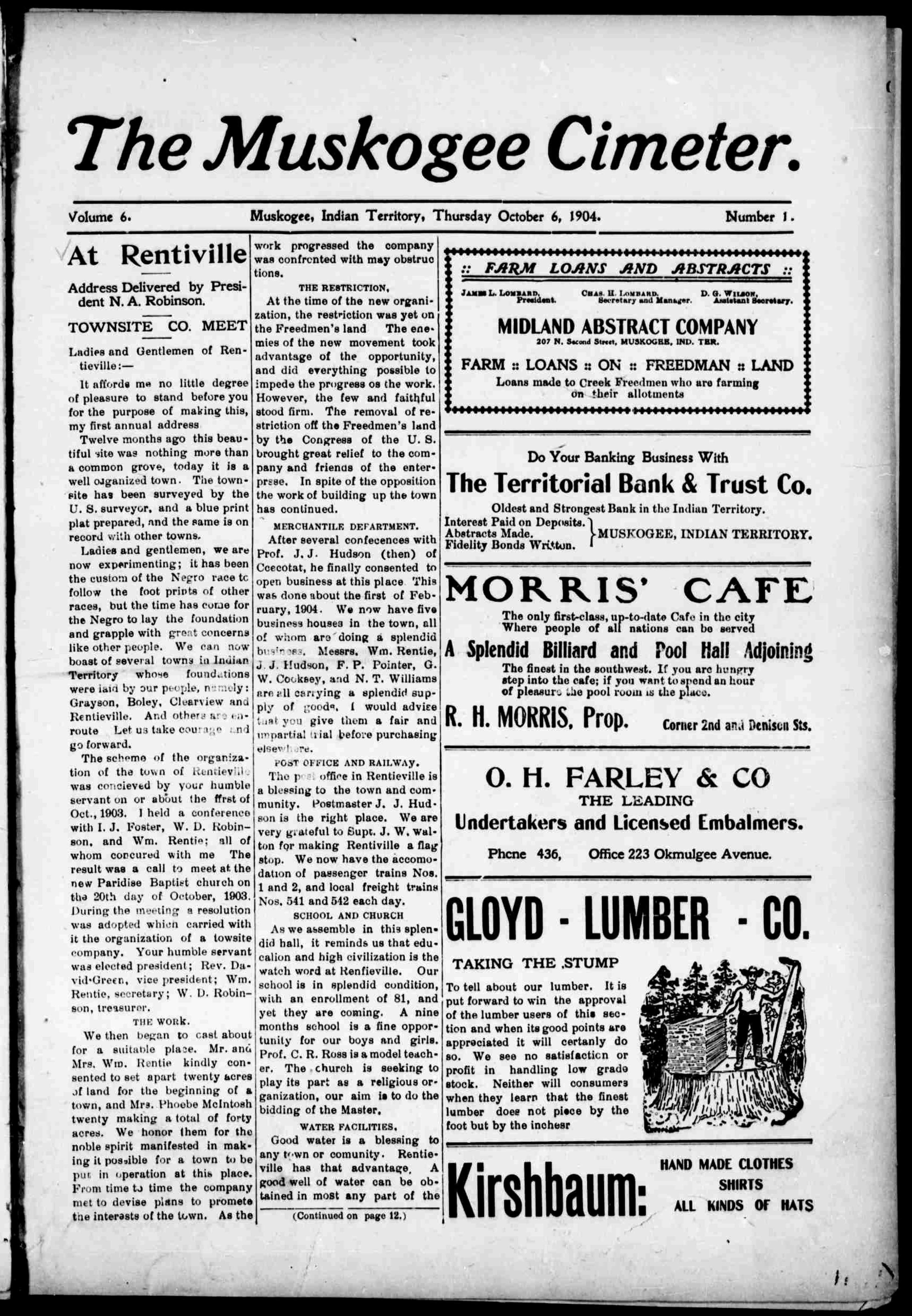 Front page of The Muskogee Cimeter, an early African American newspaper in Muskogee, Oklahoma, dated October 6, 1904. (The Library of Congress gives the date as October 13, because there are two issues of the Cimeter that both bear this same date.) Left half of page is dedicated to the transcript of a speech marking the establishment of Rentiesville, Oklahoma.